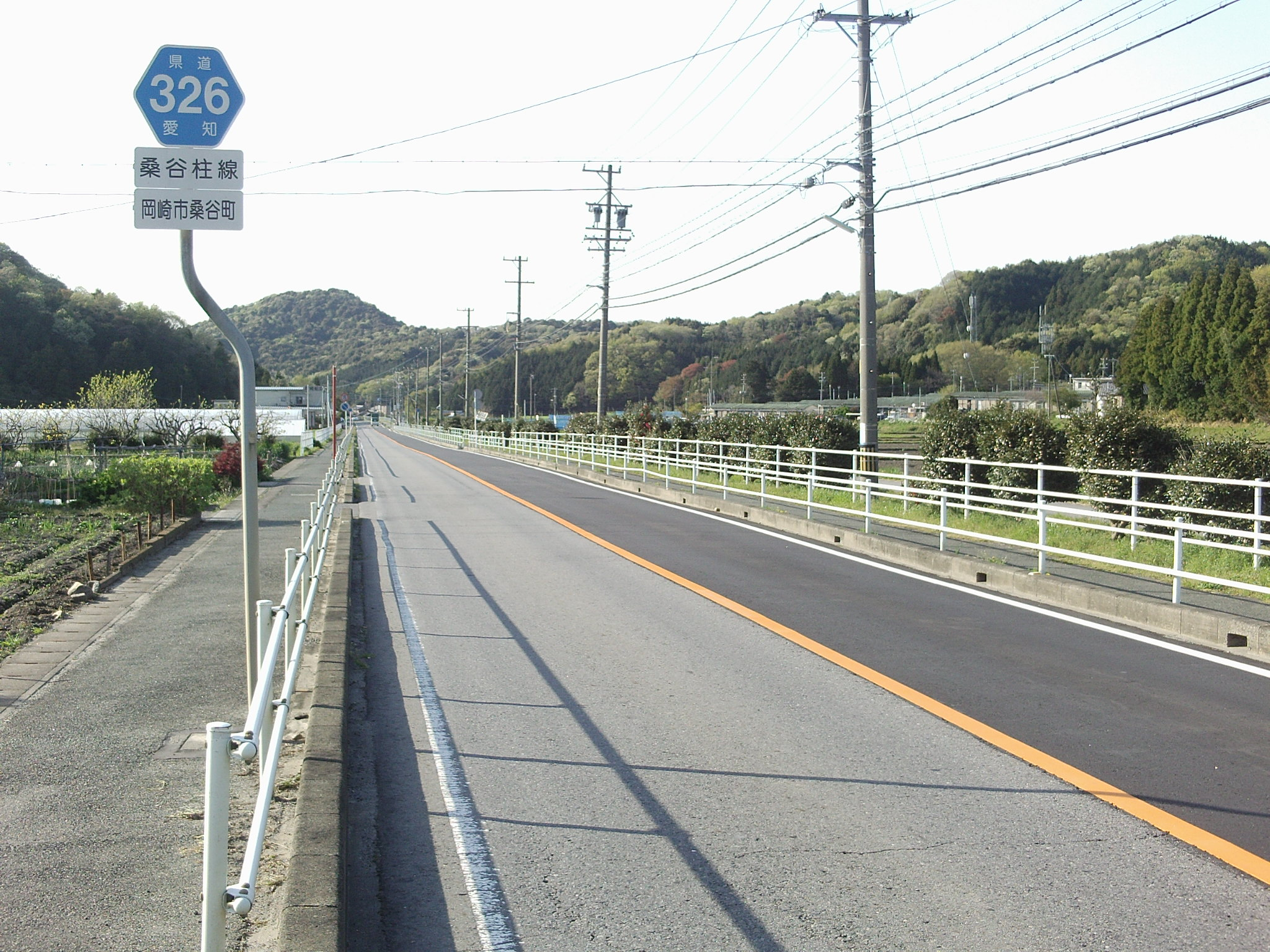 Aichi prefectural road No.326 in Kuwagaicho, Okazaki, Aichi.